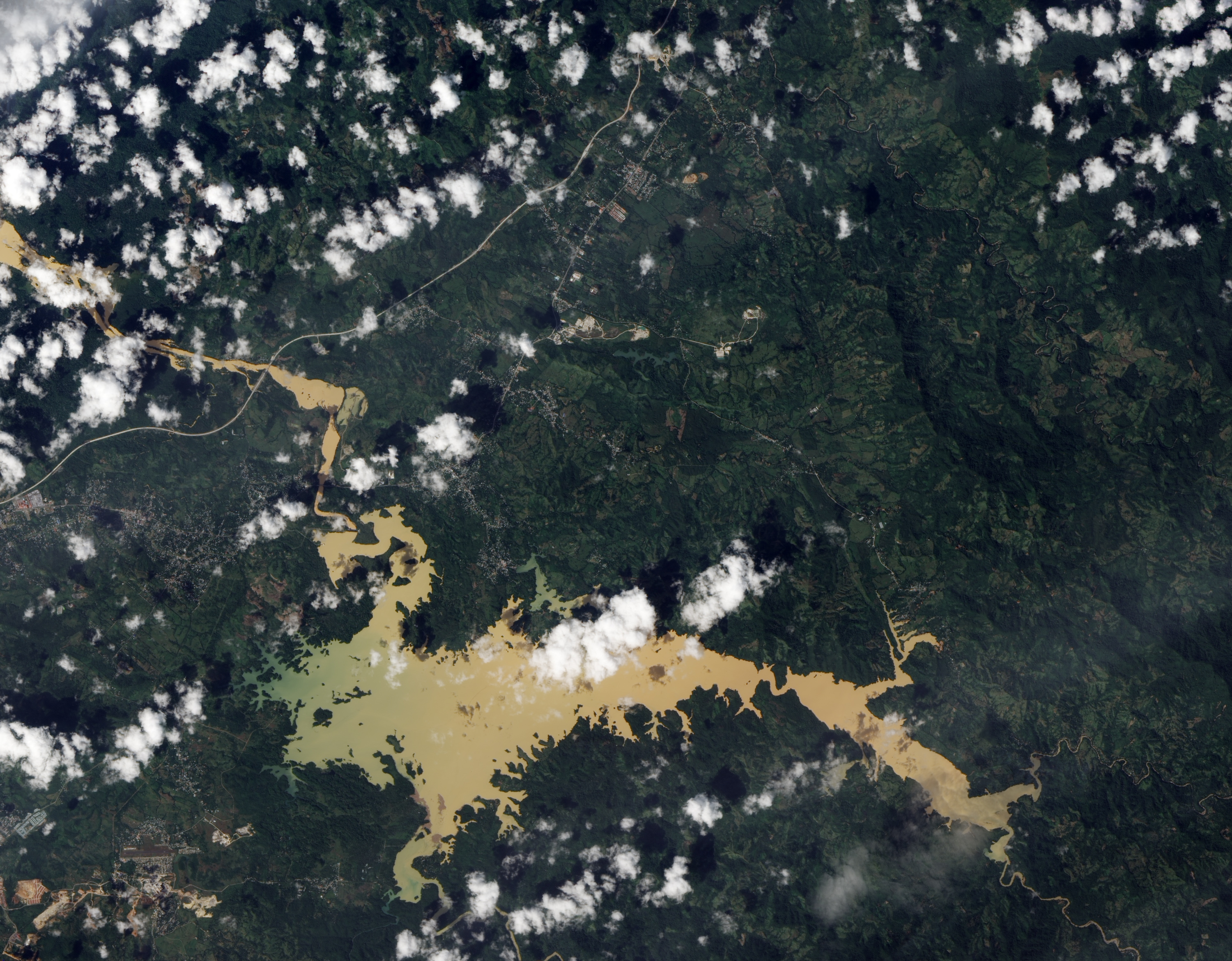 Natural-colour image of Lago Alajuela. This image has been rotated so north is to the right. The Panama Canal lies off the top left corner of the image. Torrential rains can erode soils, delivering heavy sediment loads to streams, rivers, and lakes. Ranging in colour from dull green to tan, Lago Alajuela appears choked with sediment, contrasting sharply with the surrounding green forest.